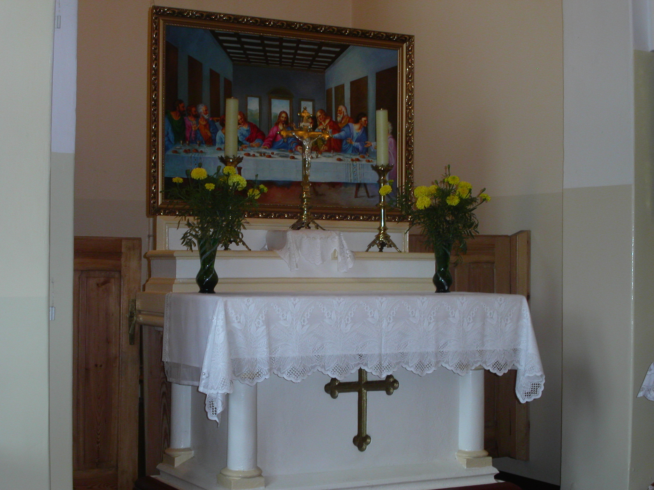 Lutheran altarpiece in the blessed Michał Kozal Church in Gniezno